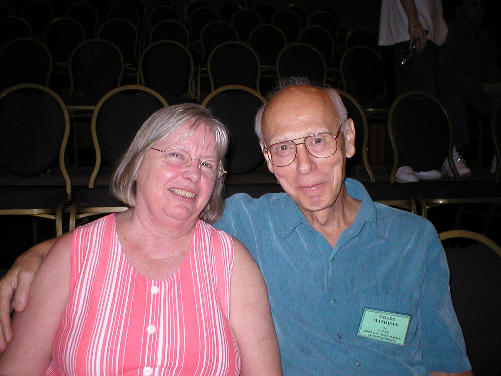 Grady and Randi Mathews Summary This is my personal photo I took with my camera and can be released to the public domain.